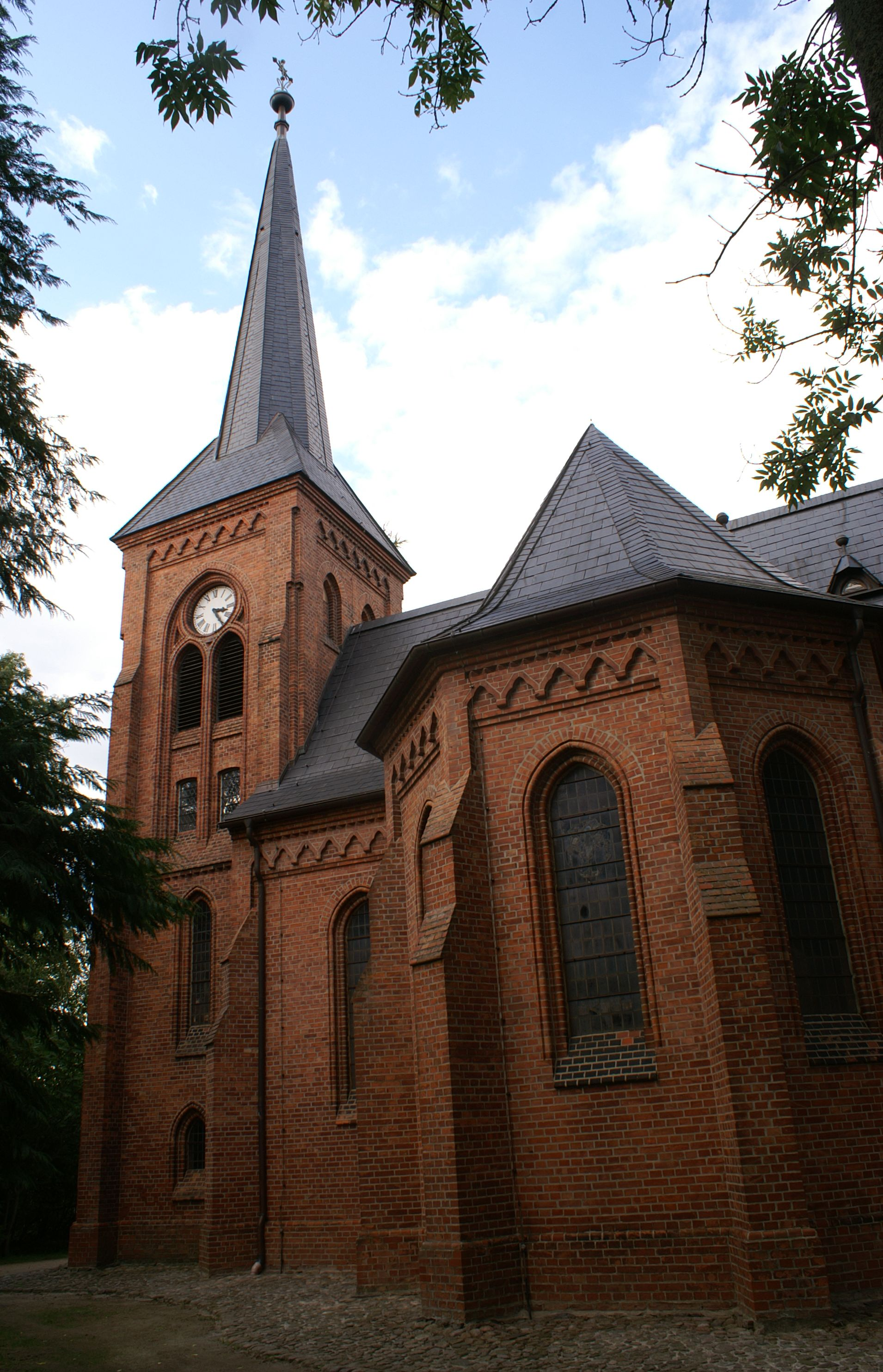 Wartislaw-Memorial-Church in Stolpe near River Peene in Mecklenburg-Vorpommern